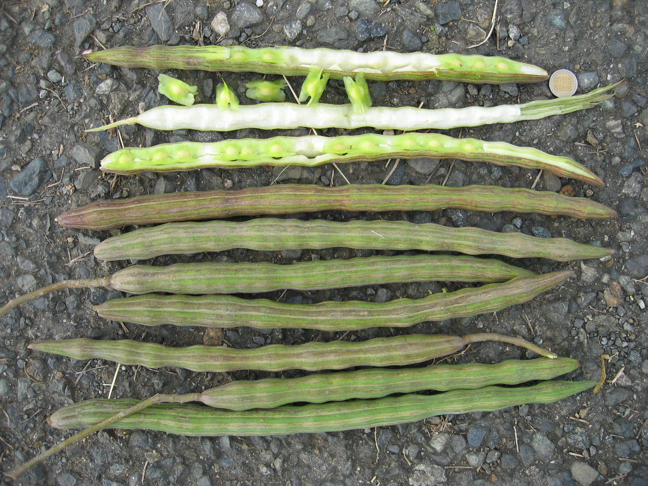 The elongated drumstick-like pods of Moringa oleifera, that gives the tree its name - the drumstick tree. Locality: Colombia